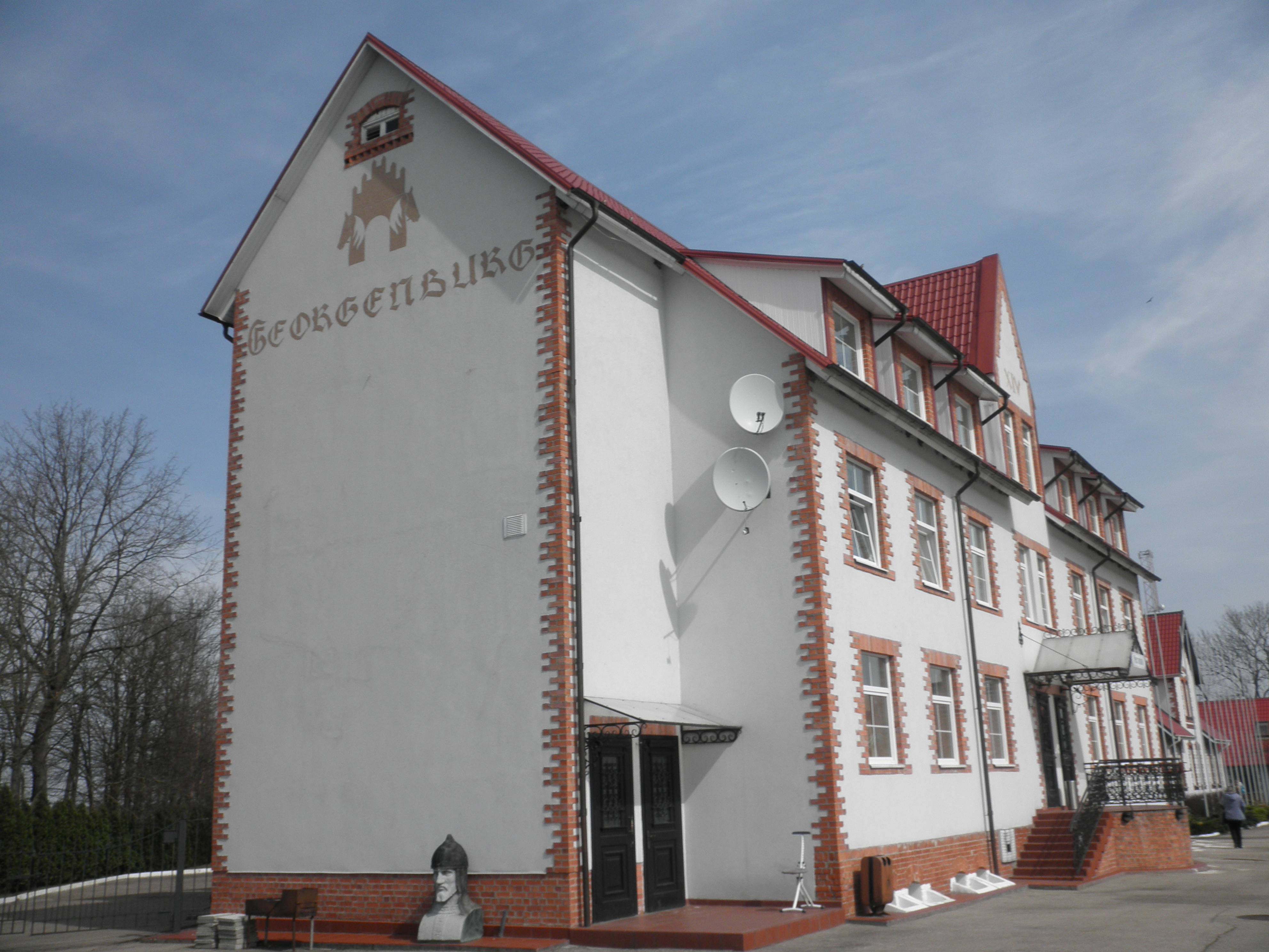 Hotel in Stud Farm in Majowka (Georgenburg) in Kaliningrad Oblast